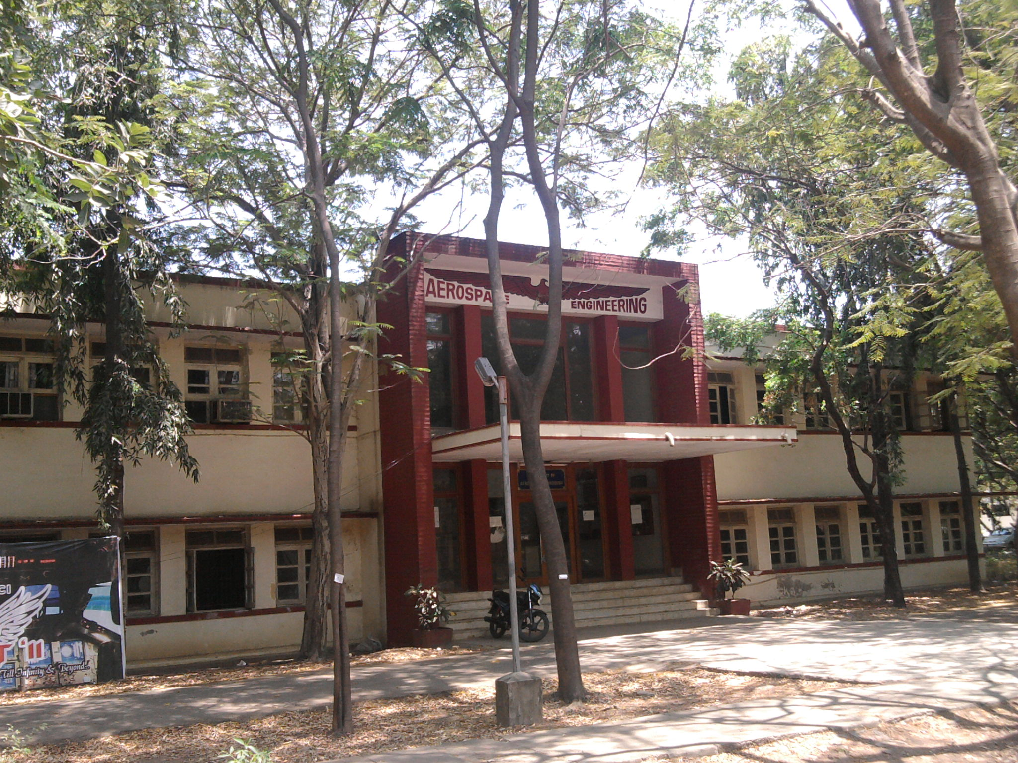 This picture was taken during a visit to MIT